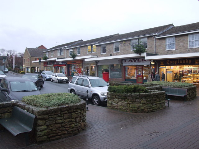 Dronfield Shopping Centre